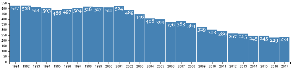 Population of Greenlandic settlement Alluitsup Paa in 1991-2017